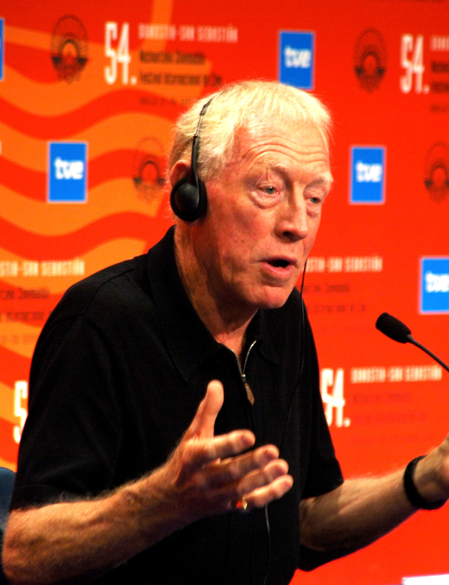 Max von Sydow at the 2006 San Sebastian International Film Festival.